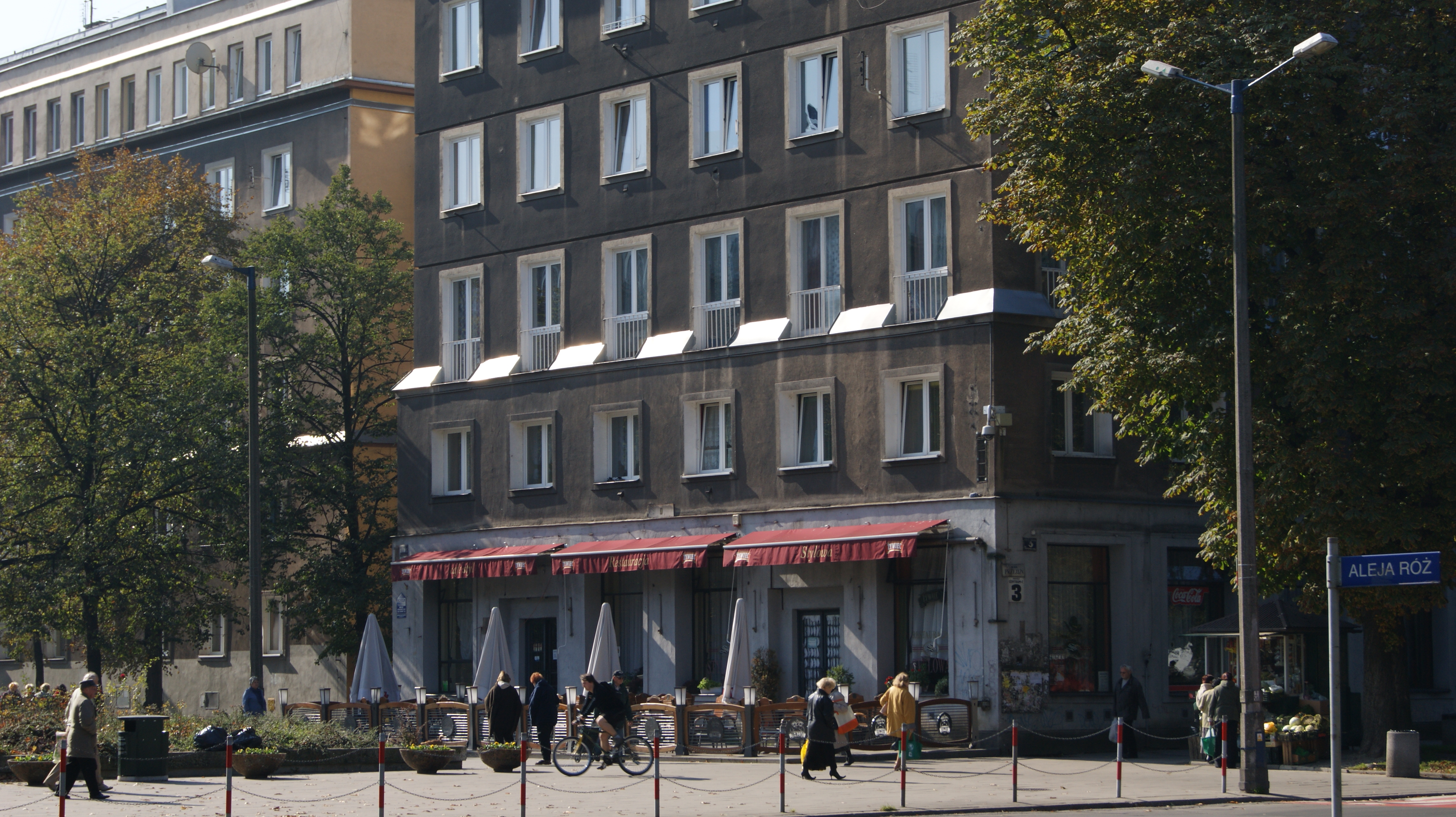 Stylowa Restaurant, 3 Centrum C,Nowa Huta,Krakow,Poland